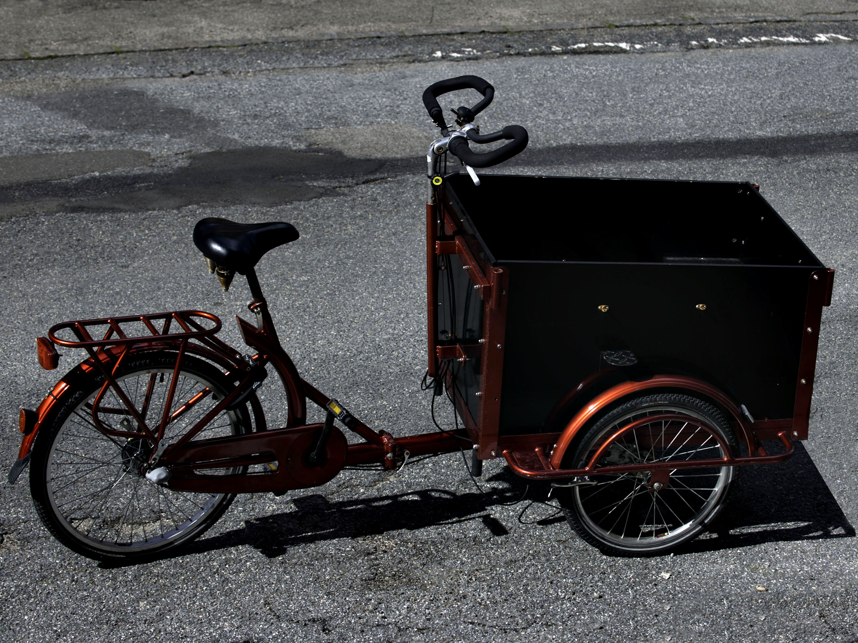 Cargo-bicycle (Cargobike) in Denmark